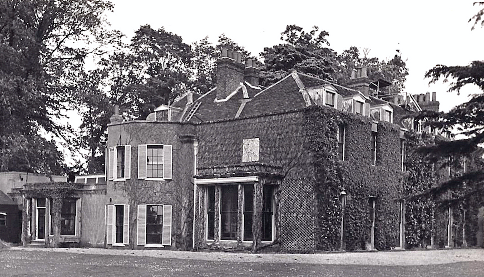 Aston House Black and white image from 1940s showing a large 3 story building with grounds